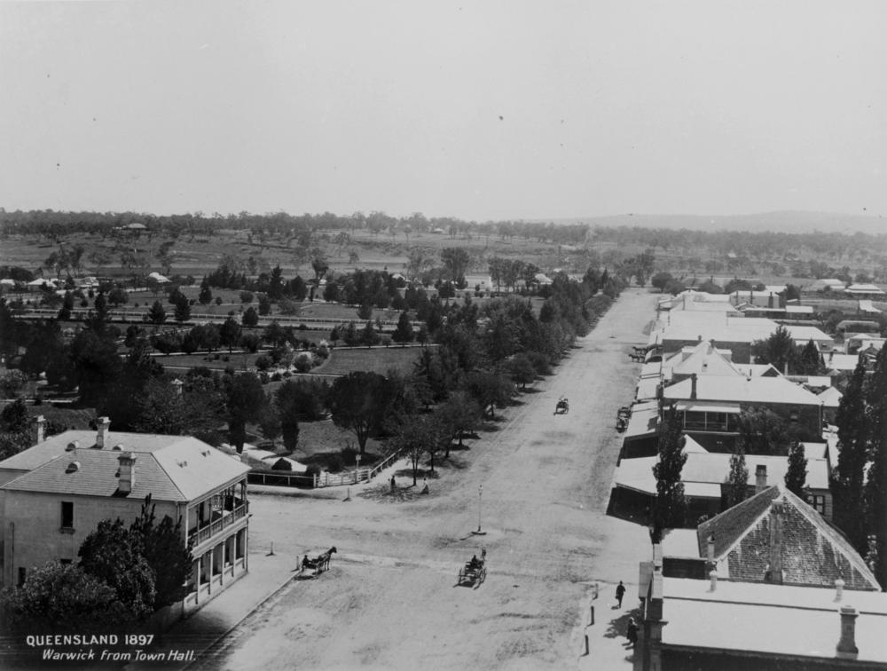 View of Warwick looking north from the vantage point of the Town Hall, 1897. Looking north, in the foreground is the intersection of Palmerin and Fitzroy Streets. The western side of Palmerin Street features the bank of New South Wales, Leslie Park and Cunningham Park. In the right hand corner stands the Australian Joint Stock Bank and the manager's residence. The opposite corner was occupied by J. A. Gorry's Saddlery.